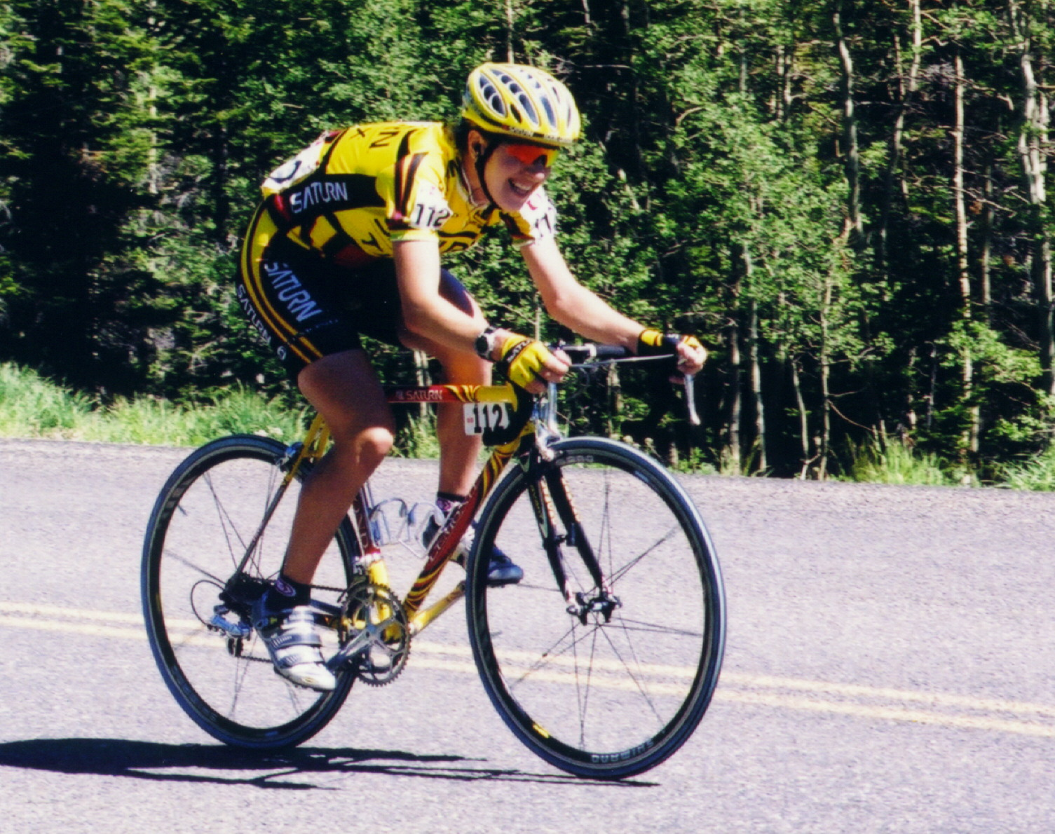 Judith Arndt making her way to the fiinish line during the Shoshone to Pomerelle stage of the 2002 Women's Challenge race. This photo was taken about 1 - 1/4 km from the finish which was at the top of a steep 6 km long climb.